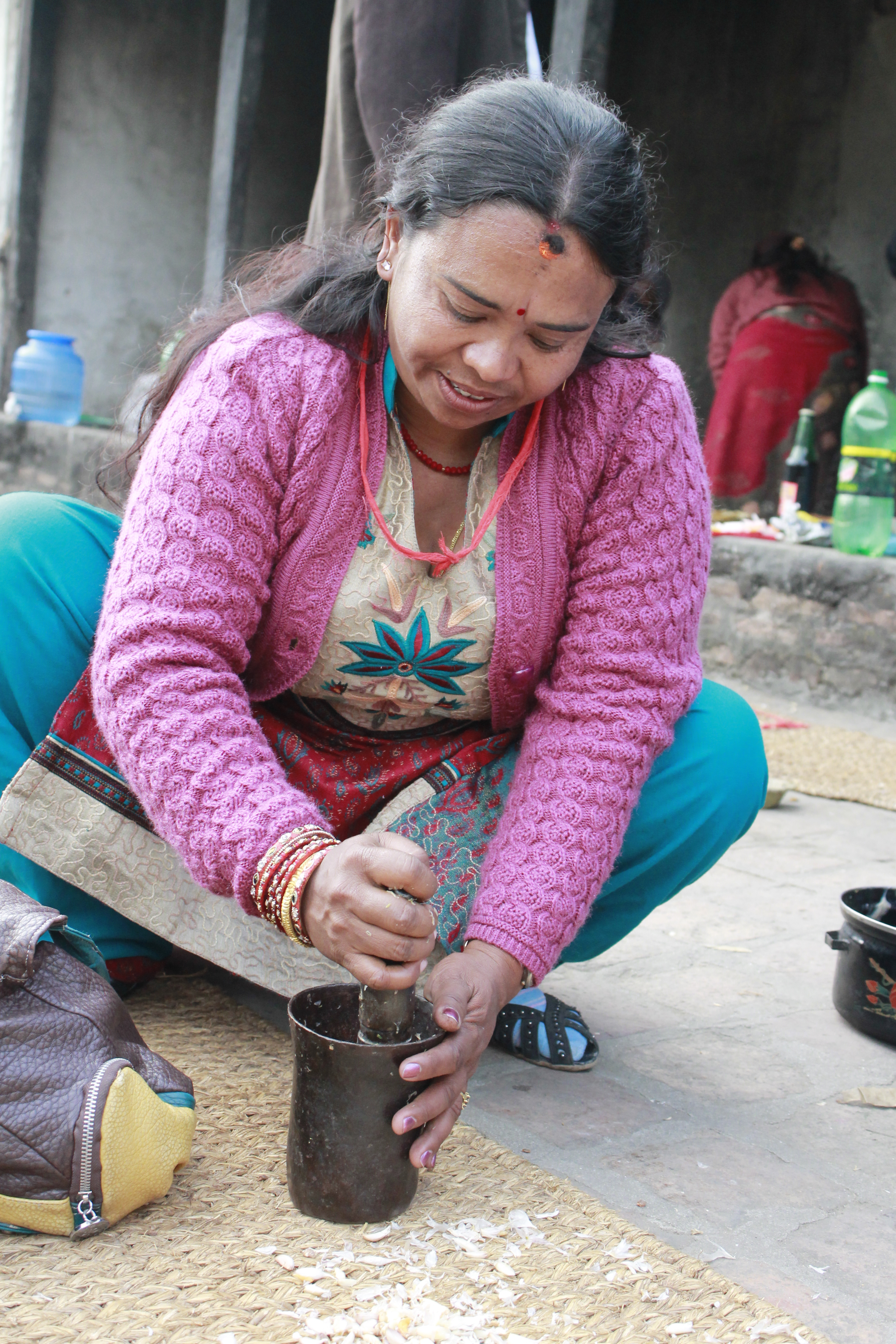 An ancient tool used in Nepal for grinding purposes.